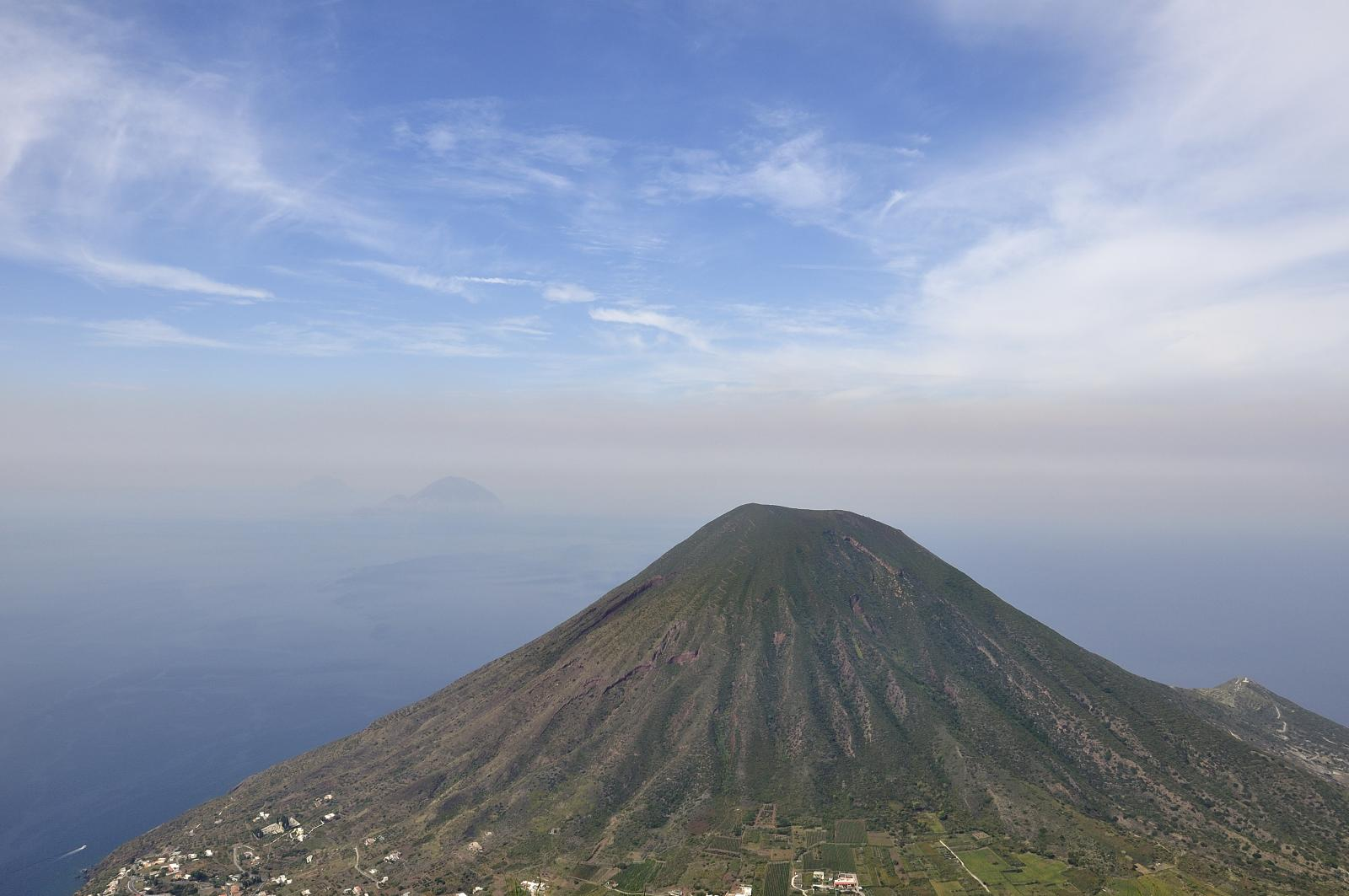 A journey to the Aeolian islands. Island of Salina